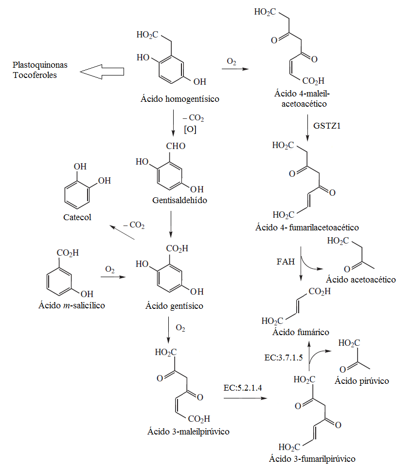 Homogentisic acid degradation scheme